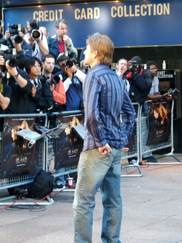 Sean Bean